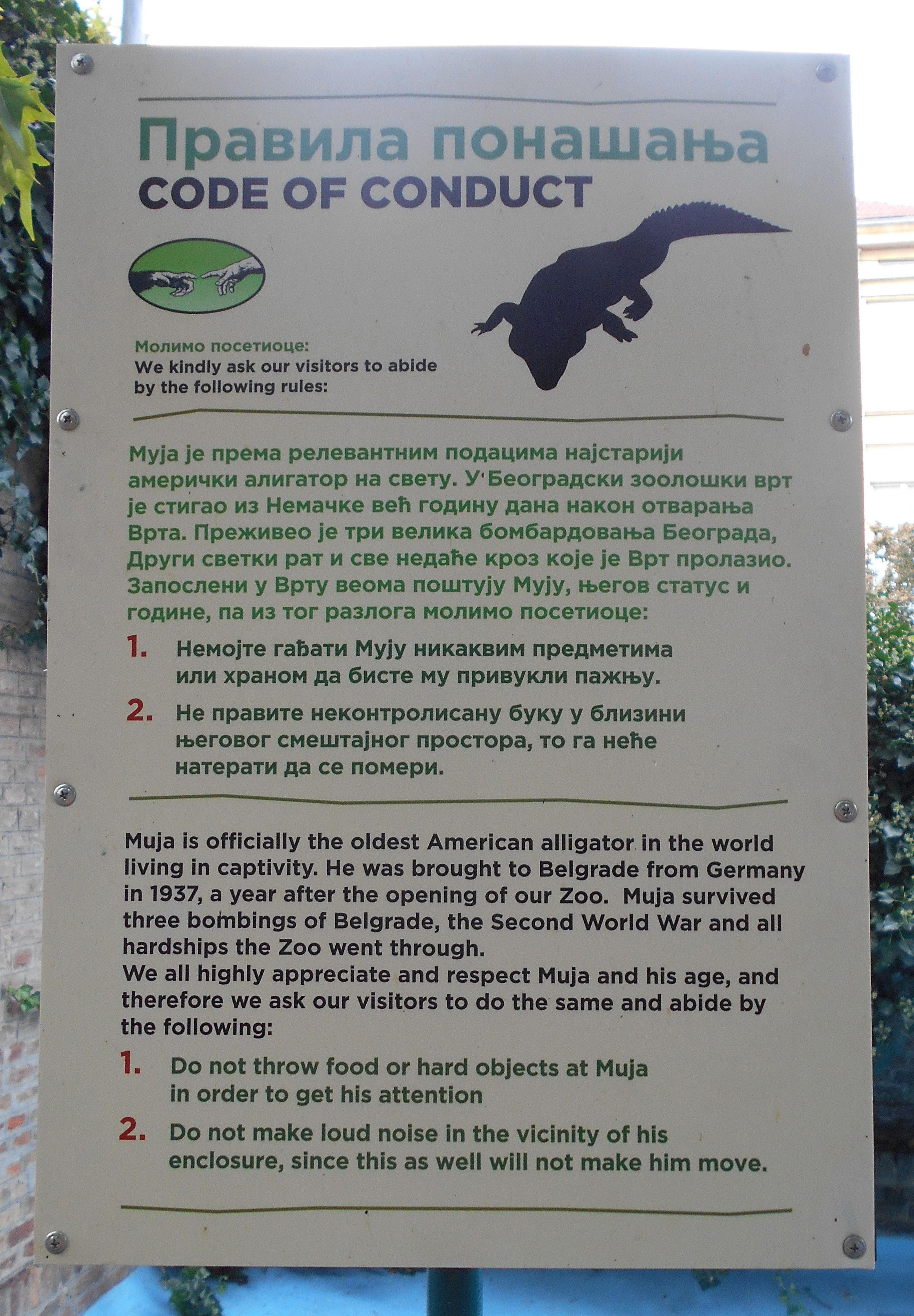 Alligator Muja at the Belgrade Zoo (currently relevant data) is the oldest of its kind in the world. Info panel.